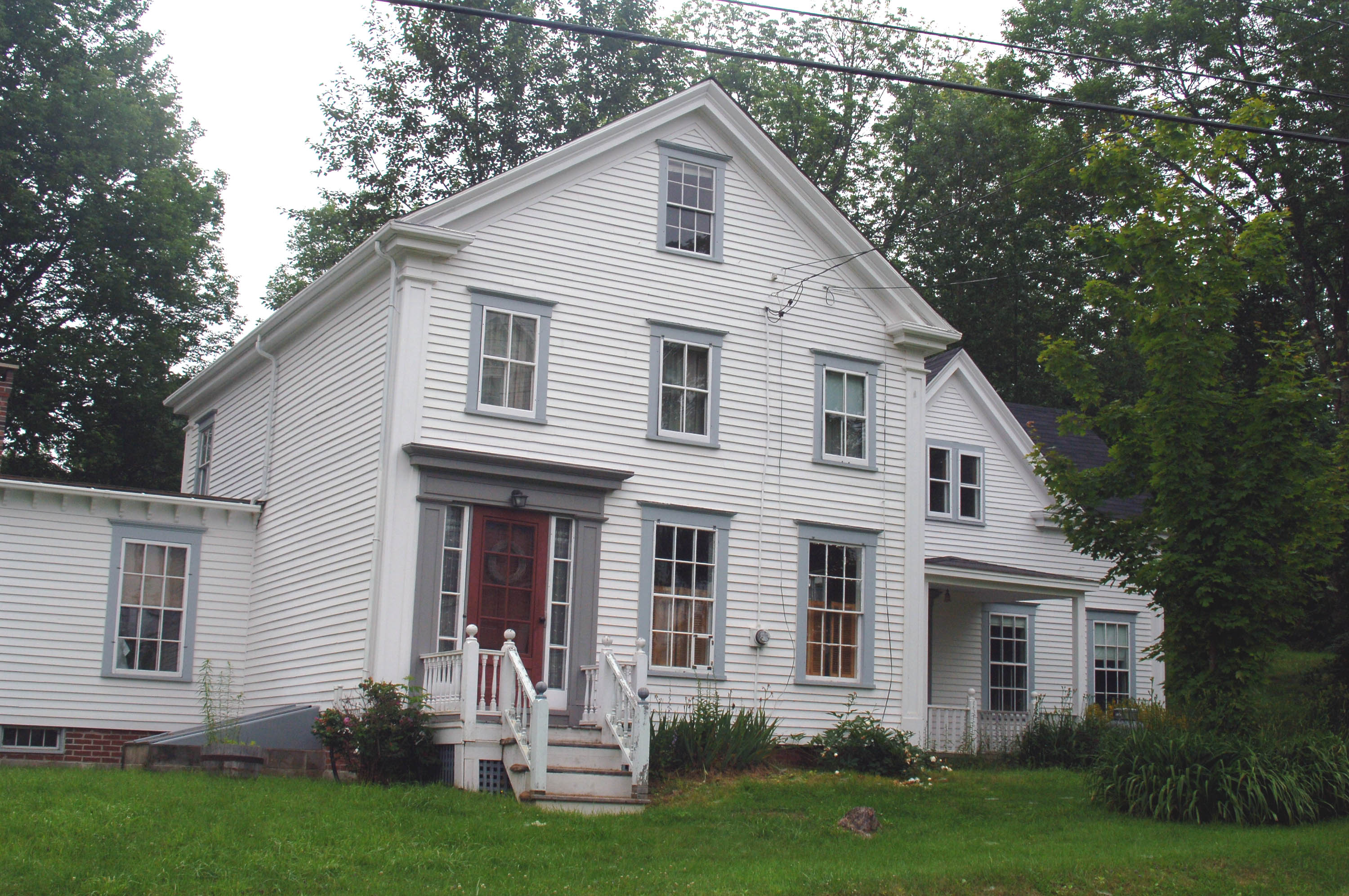 HOUSE IN WHICH DR. CHARLES BEST, CO-DISCOVERER OF INSULIN, WAS BORN IN 1899. LOCATED IN WEST PEMBROKE